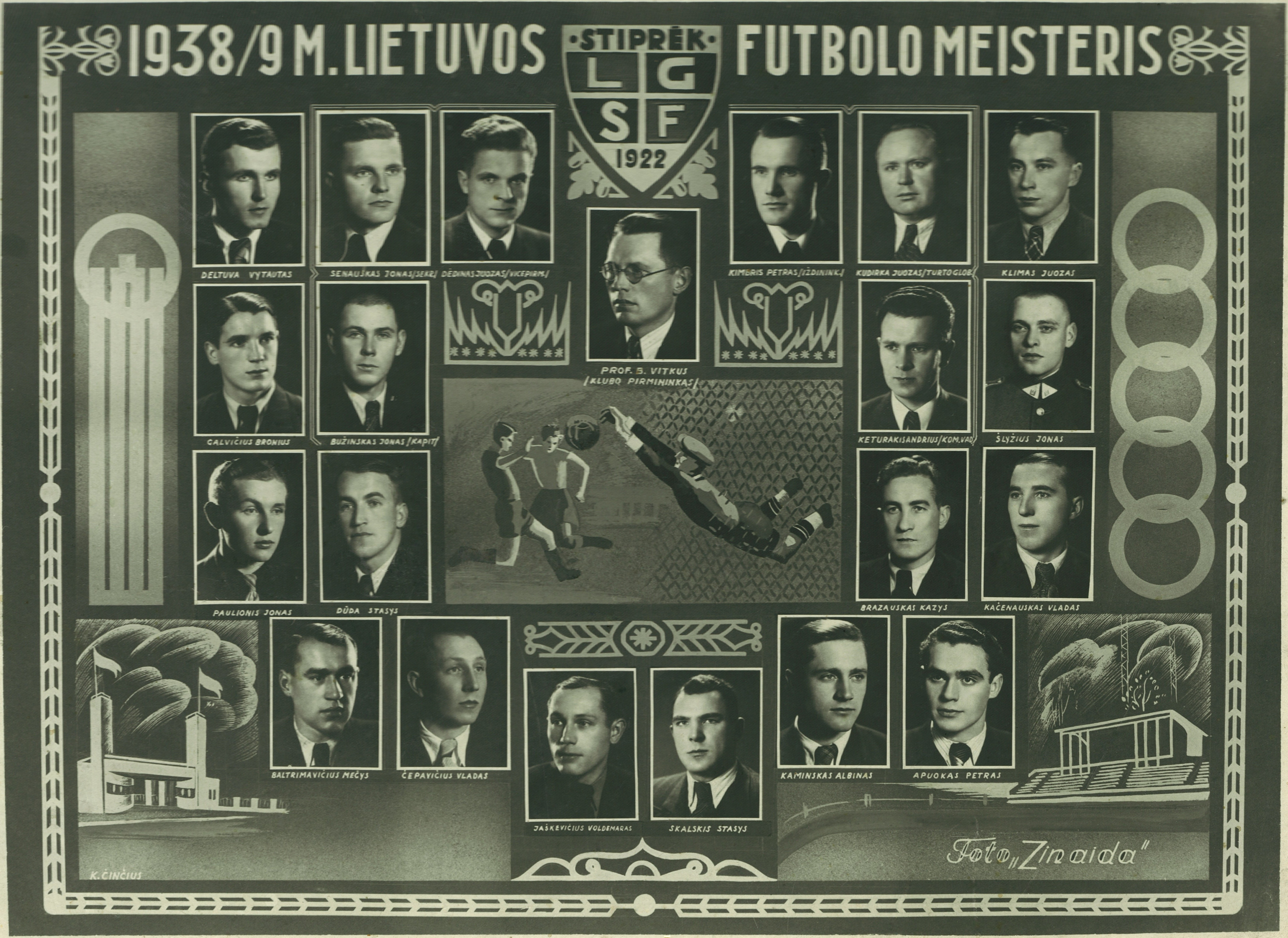 LGSF Kaunas Football Club - the 1939 Champions of Lithuania